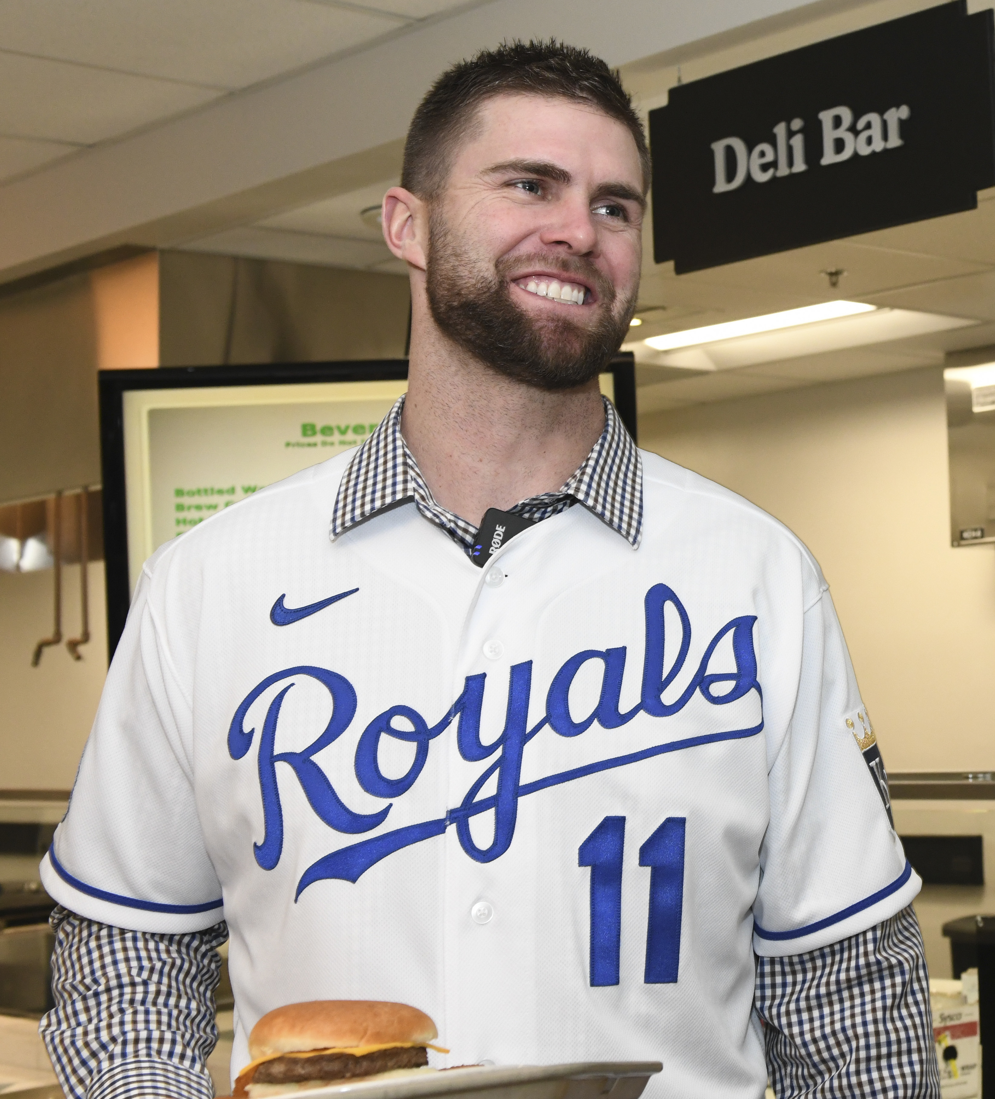 Derek “Bubba” Starling, left, a Kansas City Royals outfielder, talks with U.S. Air Force Airman 1st Class Knejie Allen, right, a 509th Force Support Squadron food services technician, during his team’s visit at Whiteman Air Force Base, Mo., Jan. 30, 2020. During the visit, KC Royals team members ate lunch with Airmen, toured a B-2 Spirit Stealth Bomber and participated in a meet and greet while learning about the Airmen and the jobs they perform. (U.S. Air Force photo by Staff Sgt. Sadie Colbert)